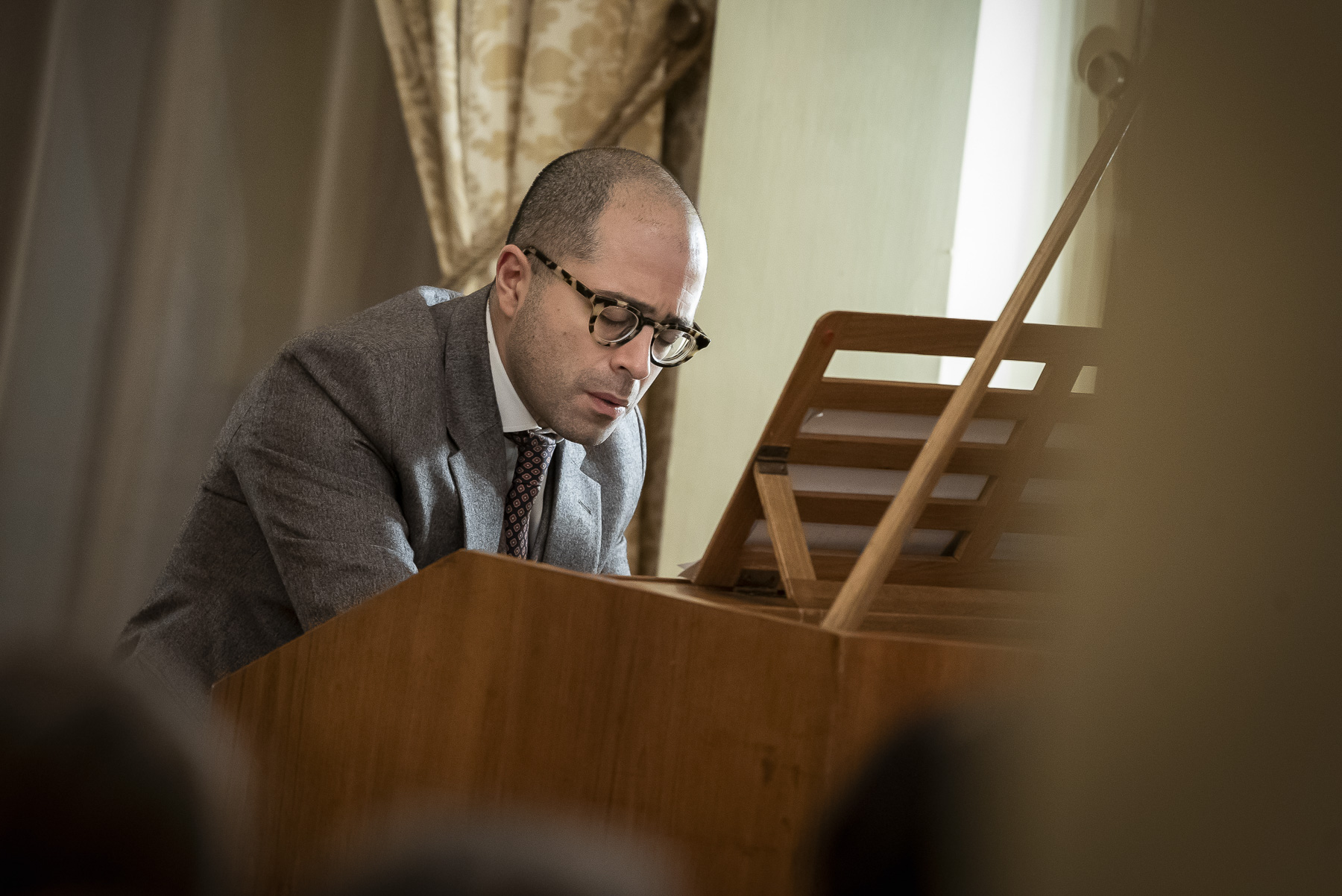 Mahan Esfahani, 4th Benefit Concert 2018 for the Bohuslav Martinů Institute, Prague, November 19, 2018